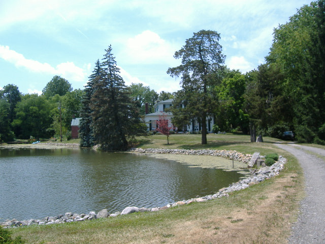 The Horsey-Barthelmas Farm located on Ohio Highway 104 west of Circleville.